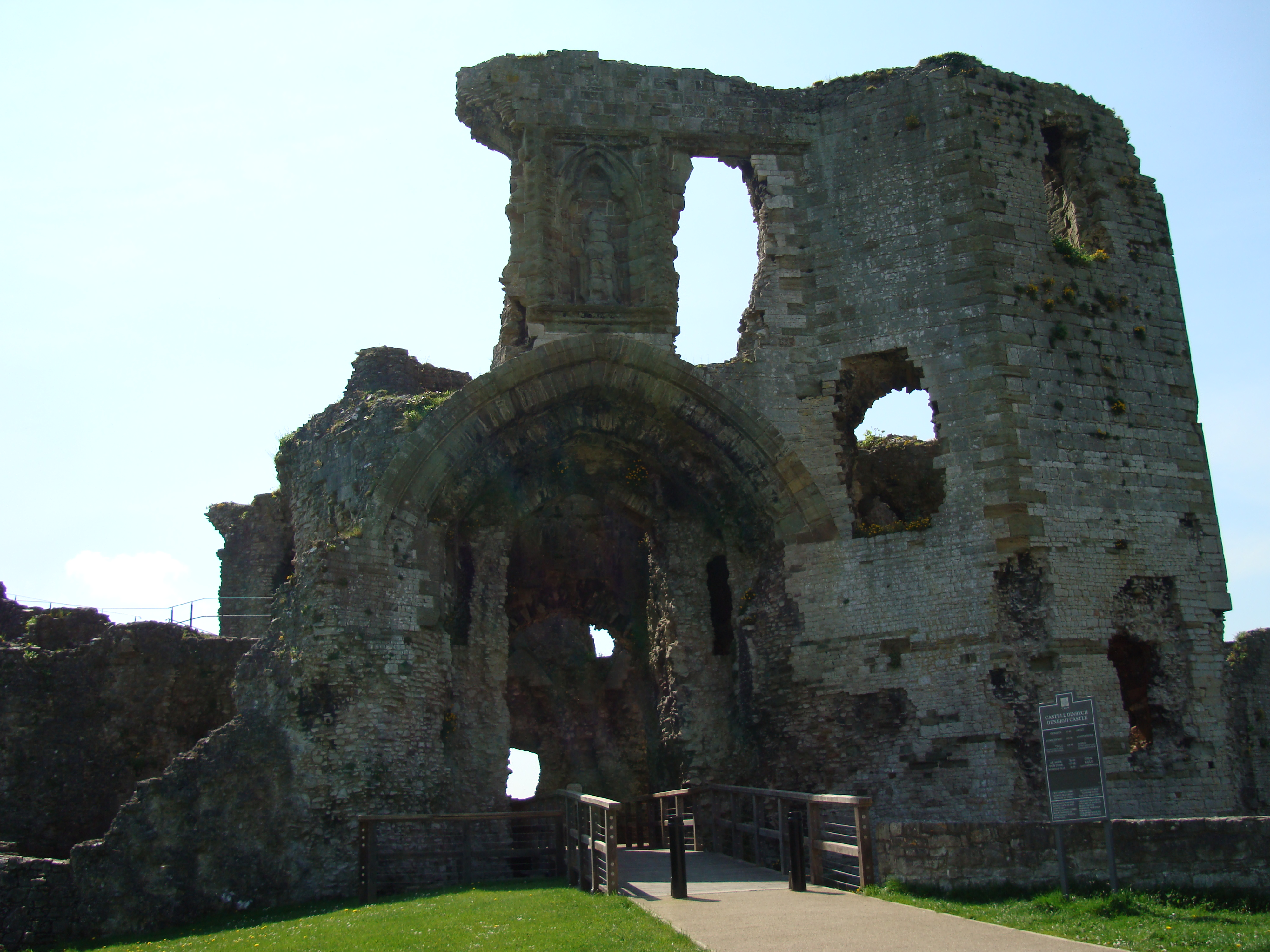 Photograph of Denbigh Castle, Denbighshire, Wales - North Tower